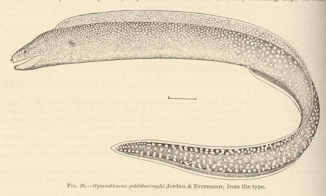 Gymnothorax goldsboroughi Jordan & Evermann; from the type Subject: Morays, Gymnothorax Tag: Fish